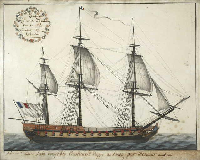 Plans of the French 24-pounder frigate Incorruptible